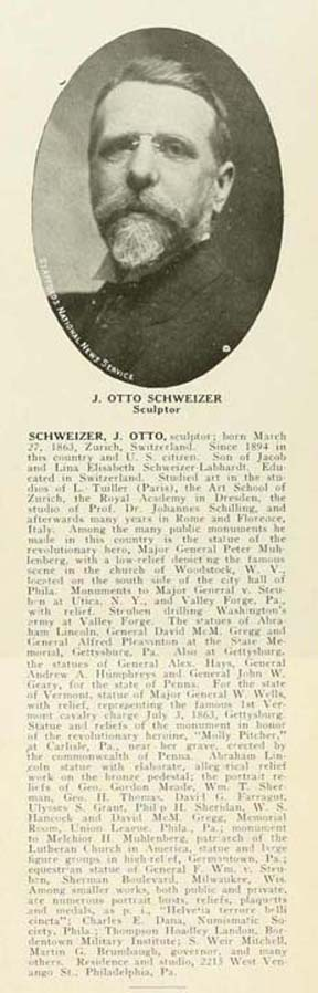 "J. Otto Schweizer, Sculptor."